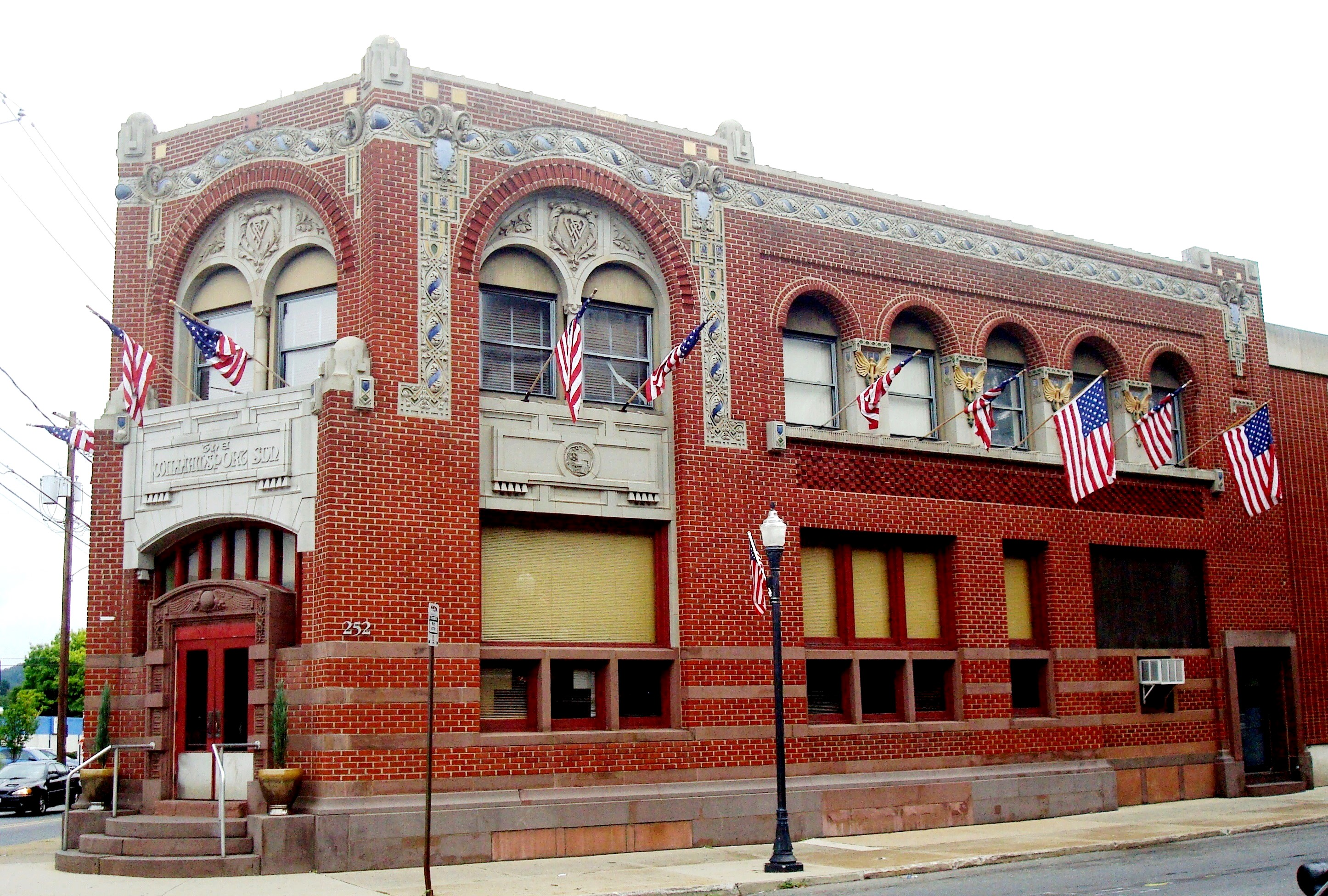 The Williamsport Sun Building at 252 West 4th Street on the corner of Hepburn Street in Williamsport, Pennsylvania is the location of the Williamsport Sun-Gazette, which was founded in 1955 when the morning Gazette & Bulletin (founded in 1801 as the Lycoming Gazette) and the afternoon Williamsport Sun (founded in 1870) merged. The corner Sun Building as constructed c.1912 in the Art Deco style, and the press building attached to it in 1926. Source: [1])